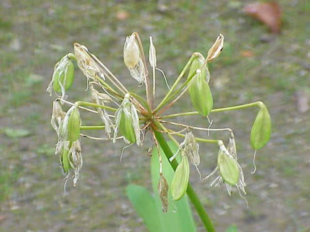 Species: Agapanthus africanus Family: Liliaceae Image No. 6